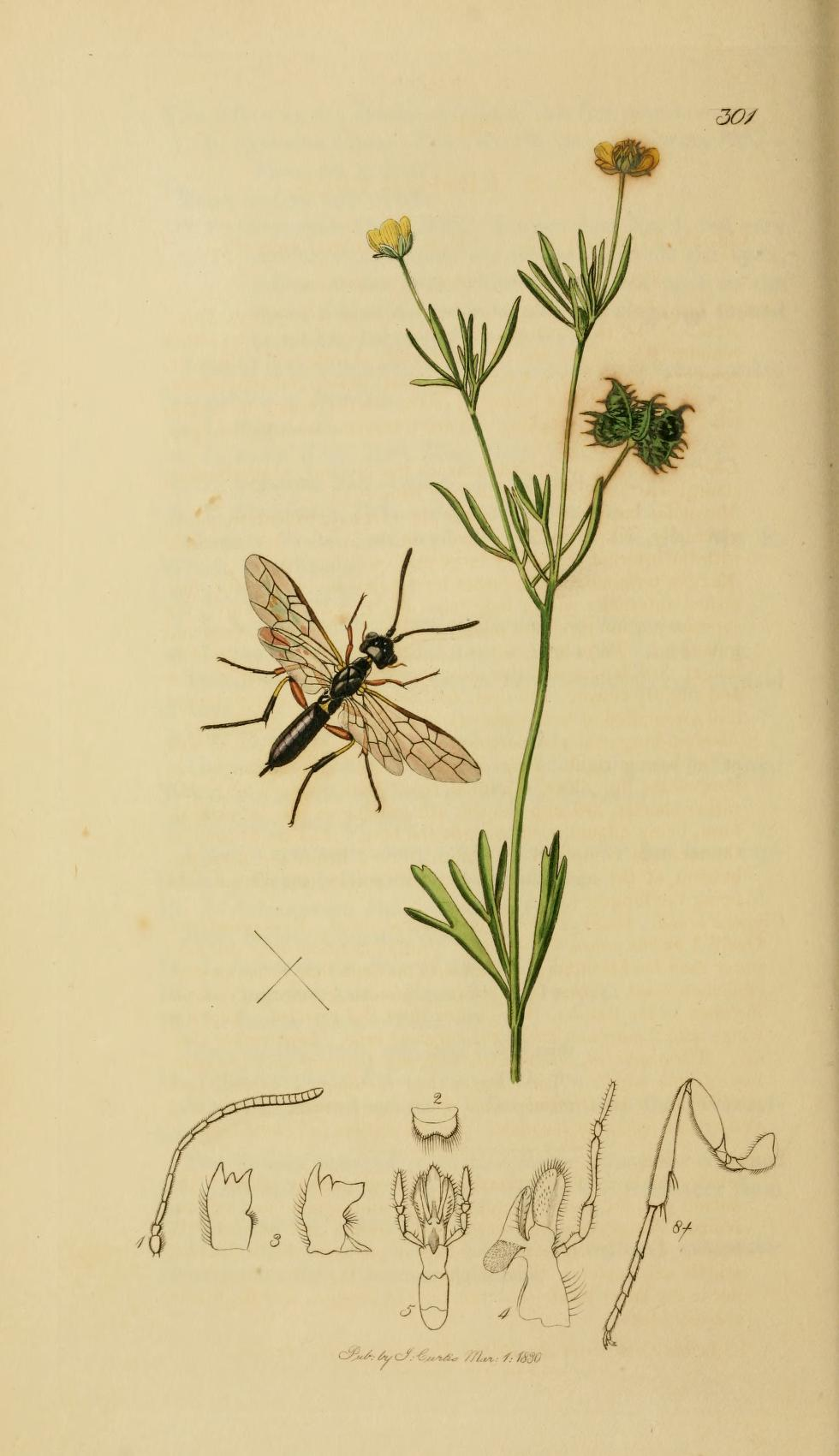 An illustration from British Entomology by John Curtis.Cephus femoratus Valid name Janus femoratus the Yellow-thighed Cephus